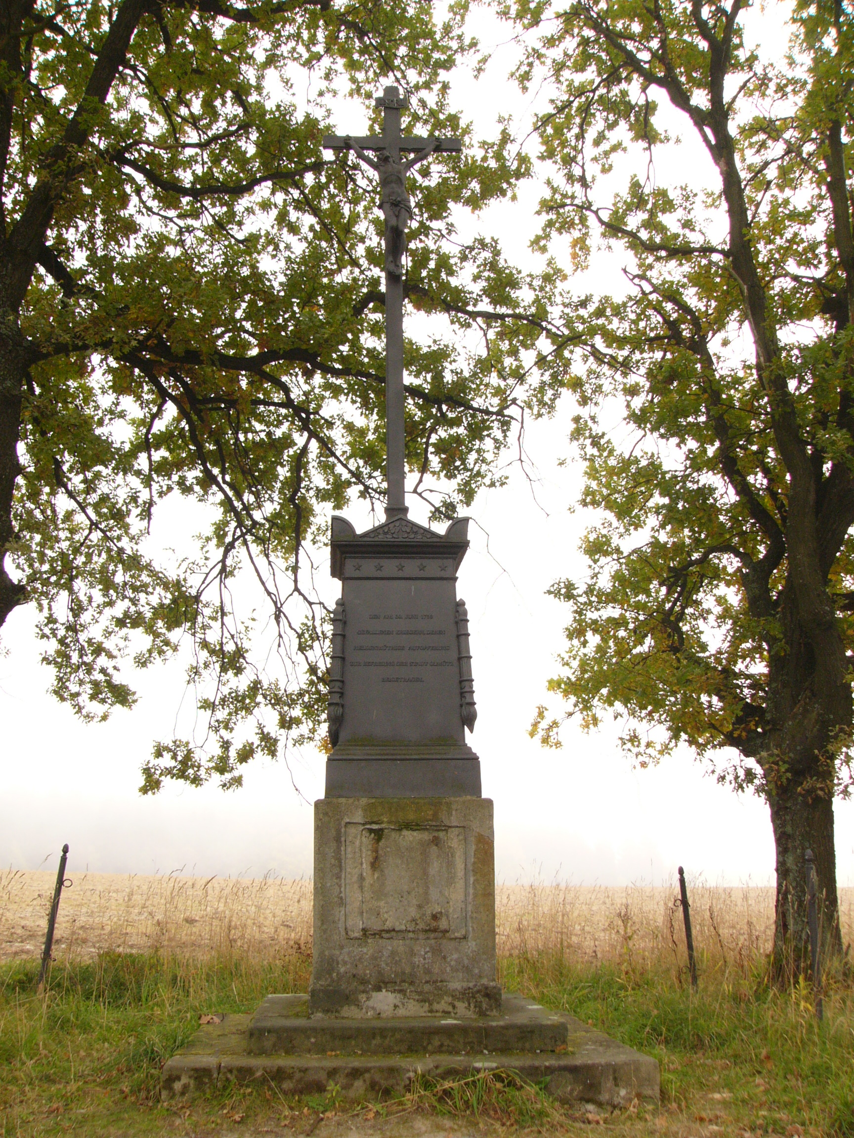 Memorial dedicated to Battle of Domstadtl (1758) near Domašov nad Bystřicí (Czech Republic). Text is in German languagage (see below). Memorial was built in 1858.